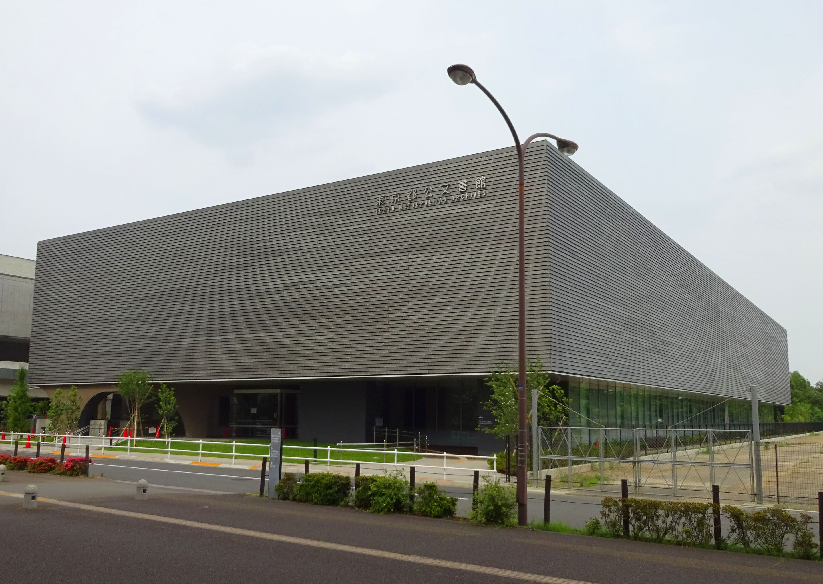 Tokyo Metropolitan Archives